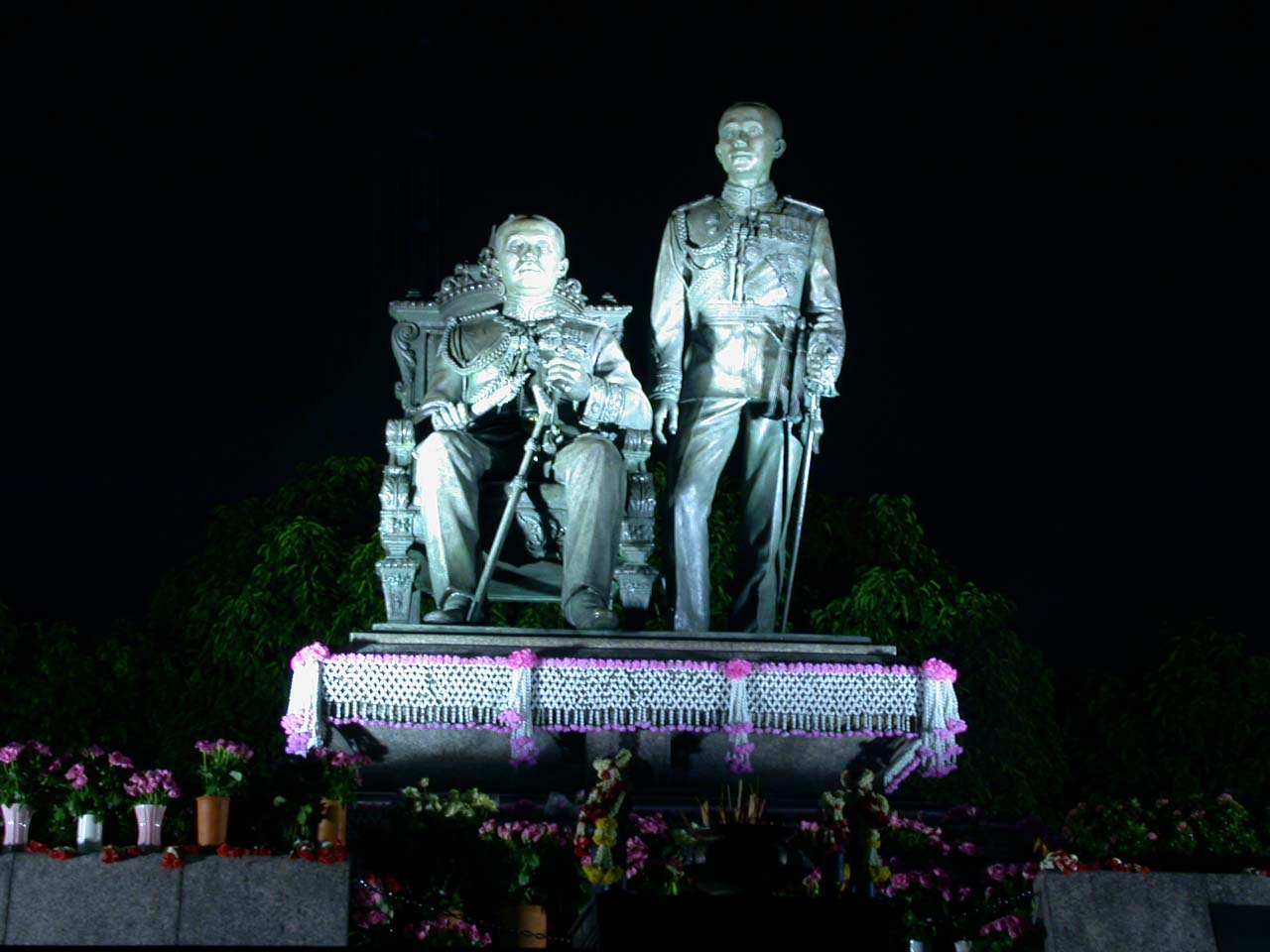 King Chulalongkorn and King Vajiravudh Memorial in Chulalongkorn University, Bangkok, Thailand